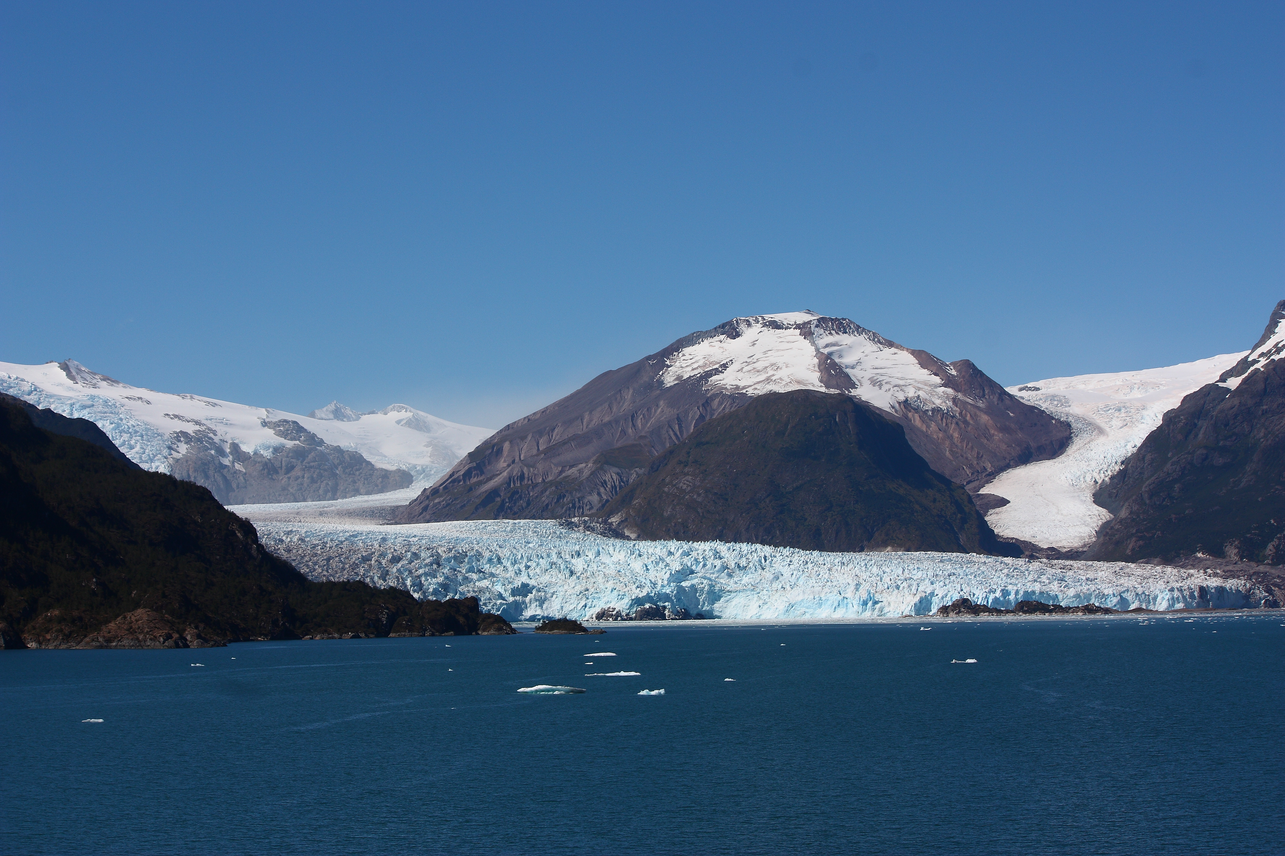 Amalia Glacier and Reclus Volcano, Chile.